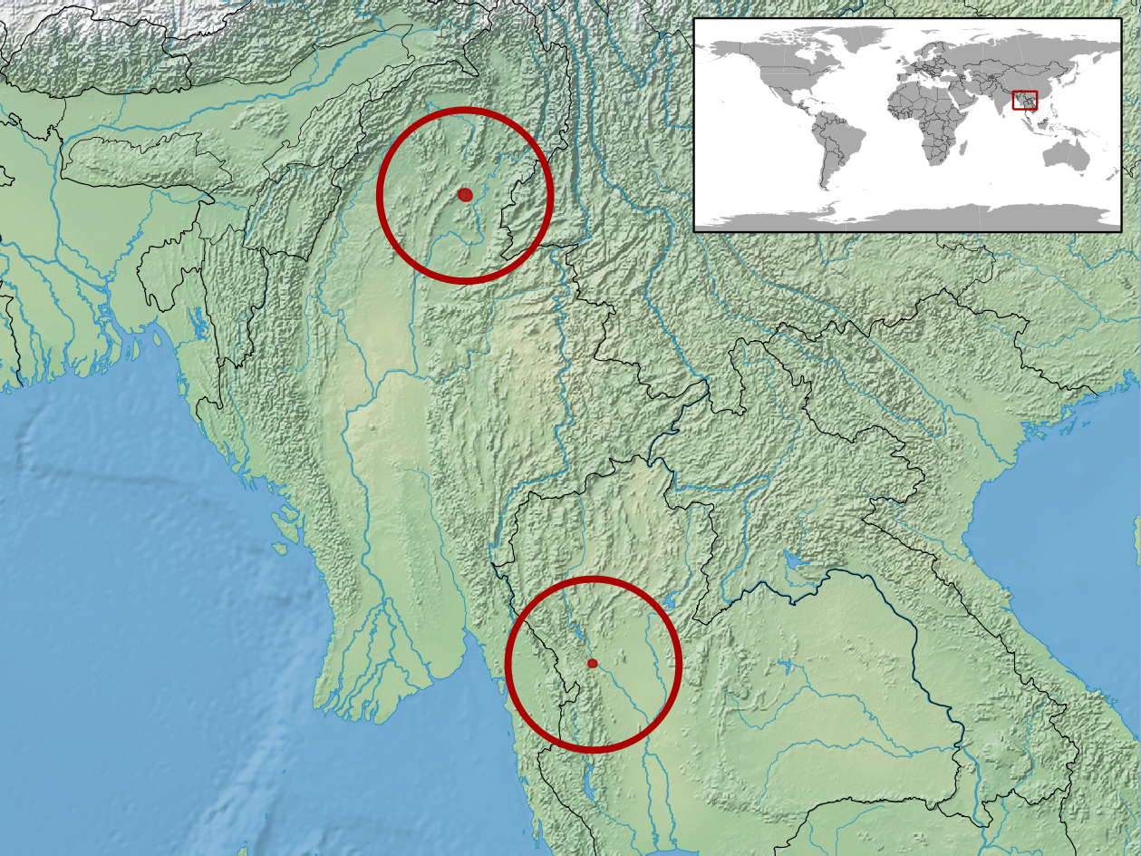 geographic distribution of Scincella punctatolineata